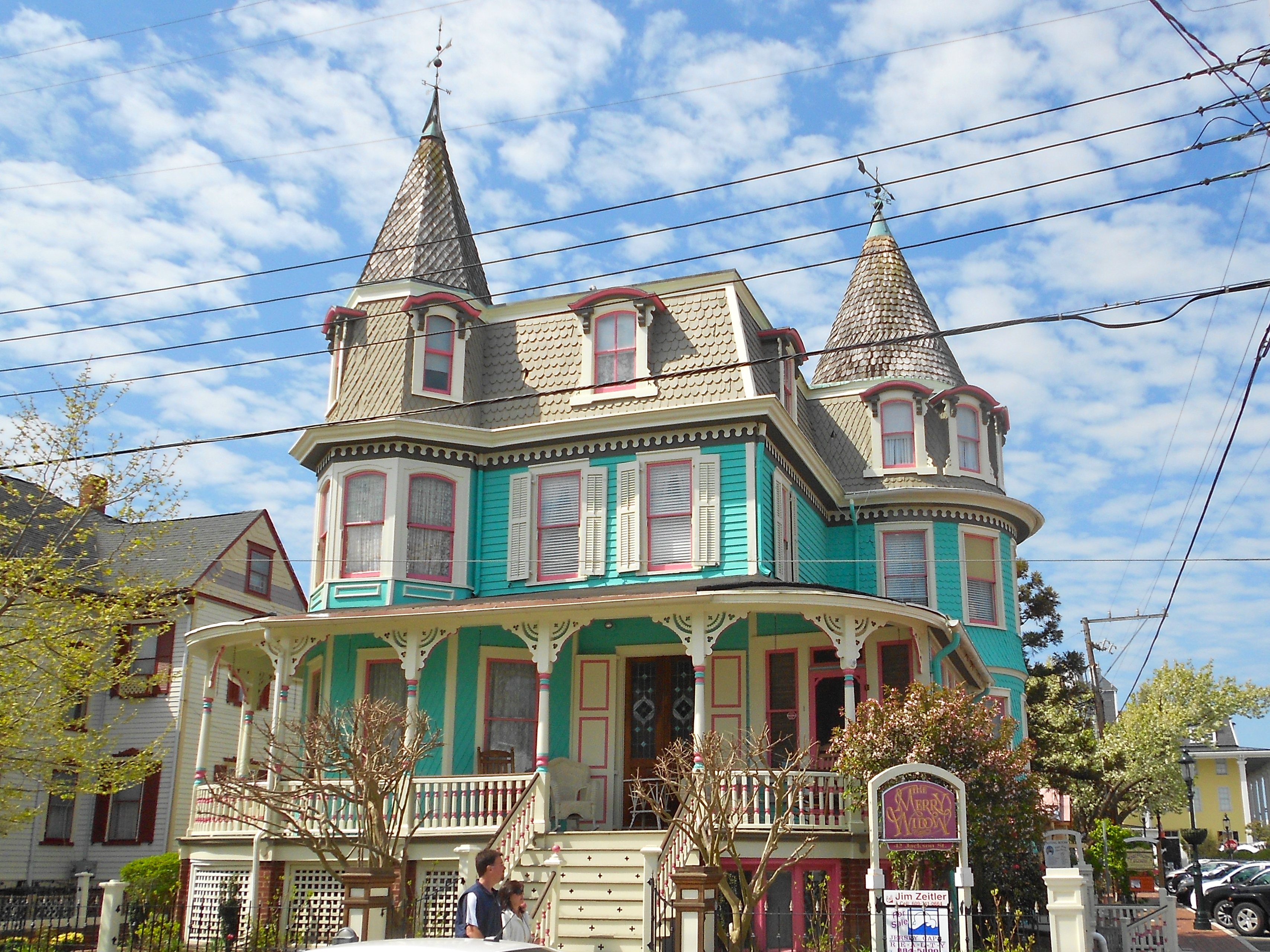 Building in the Cape May Historic District